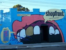 Shopfront Theatre, Carlton Parade. Shopfront Contemporary Arts Centre, Carlton.